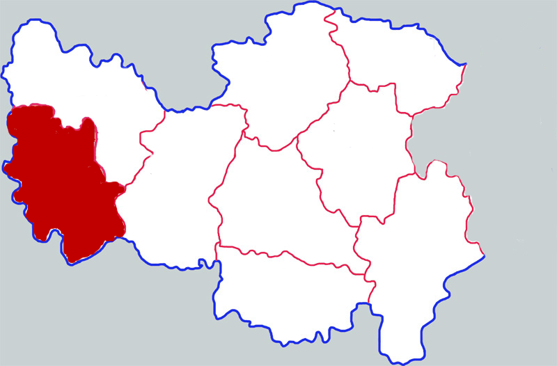 Location of Shihe district in Xinyang city, China